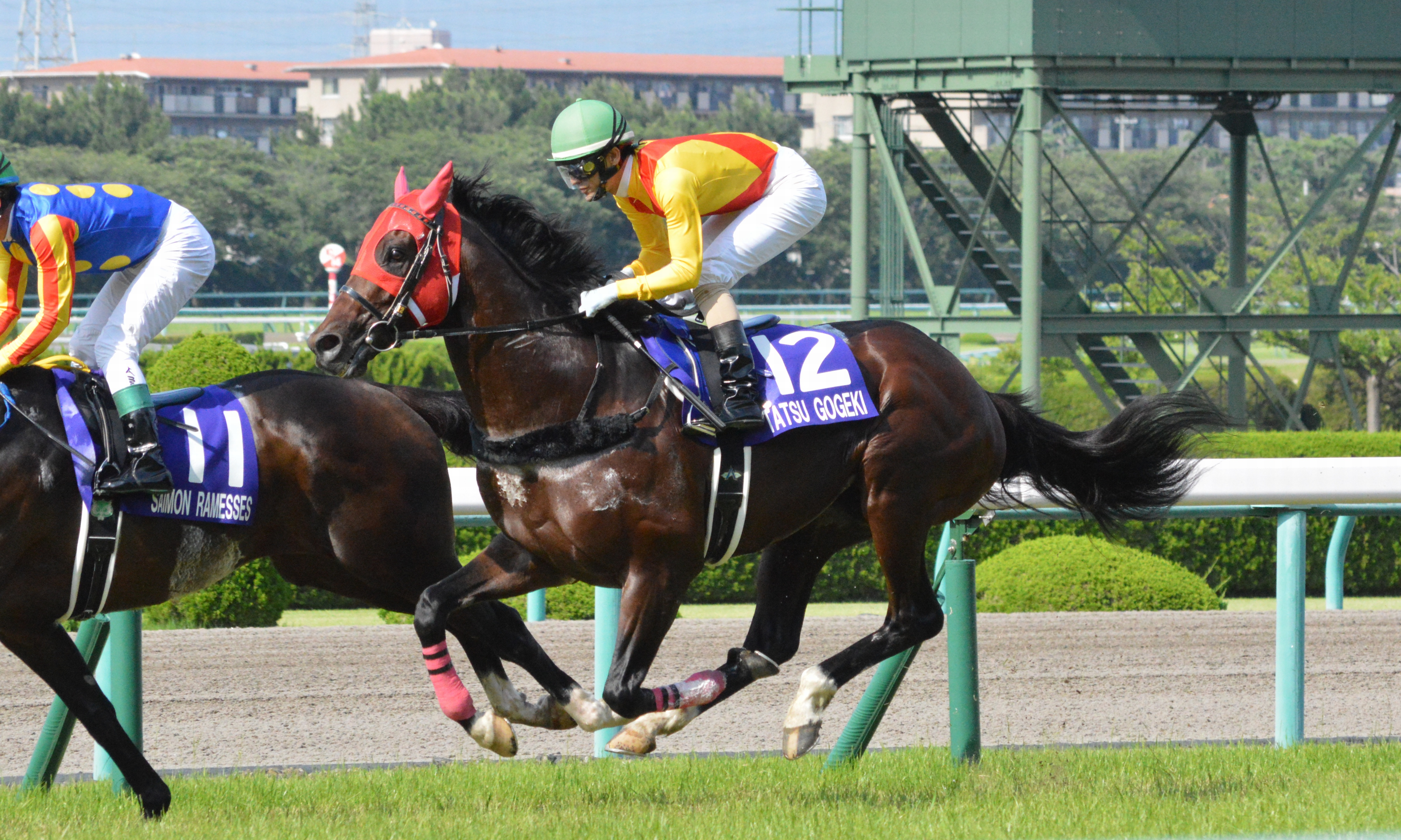 Japanese race horse Tatsu Gogeki at Hanshin racecourse. Hanshin (JPN) 24 Jun 2018 Takarazuka Kinen (Grade 1) (3yo+) (Turf) 1m3f Good RankHorse NameOddsAgeWgtJockeyTrainer1stMikki Rocket (JPN)121/10H59-2Ryuji WadaHidetaka Otonashi15thTatsu Gogeki (JPN)165/1H69-2Shinichiro AkiyamaIppo SameshimaOthers are omitted. (16 horses entered in a race.)